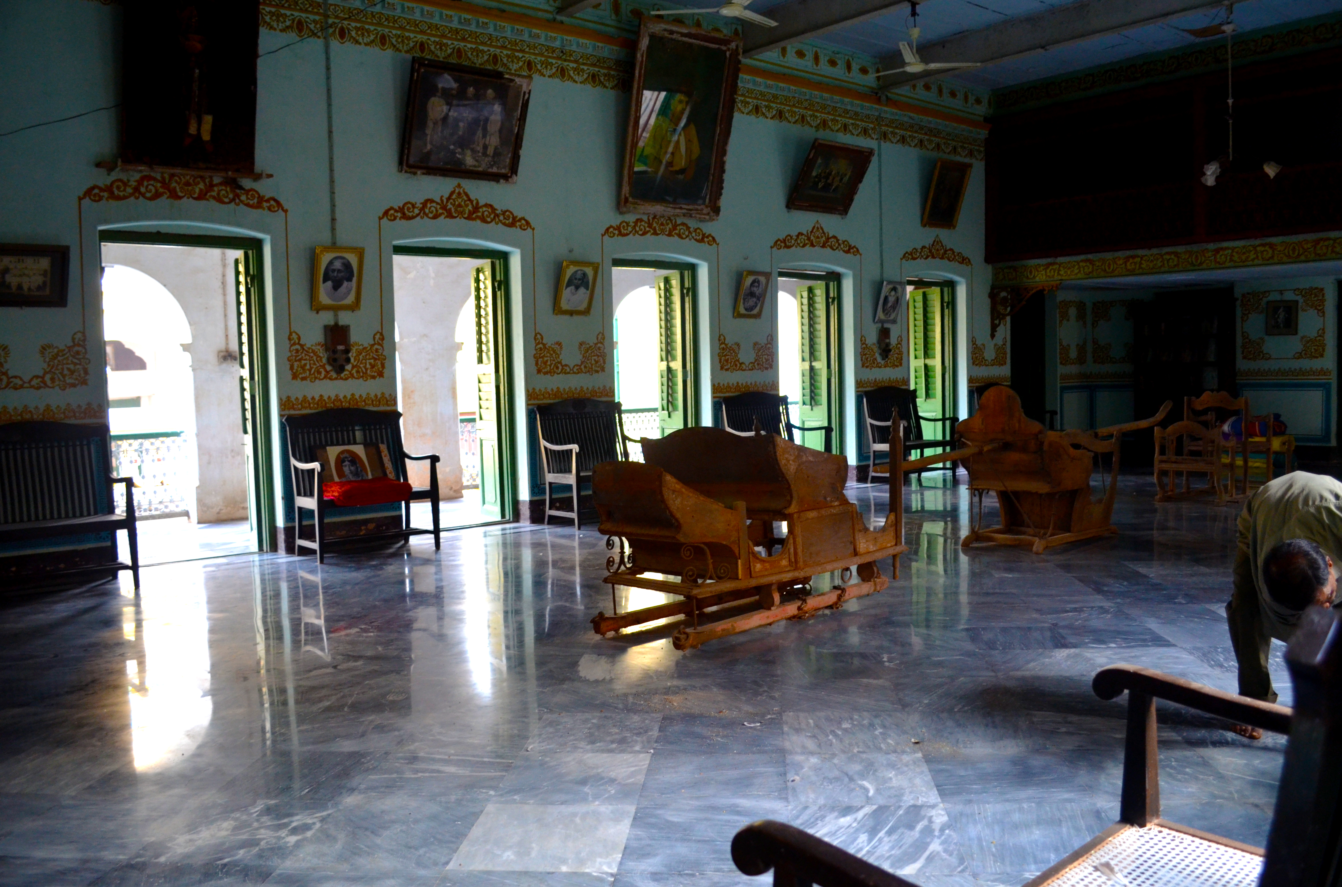 Interior of Gajlaxmi palace (Dhenkanal Rajbari), Dhenkanal, Odisha